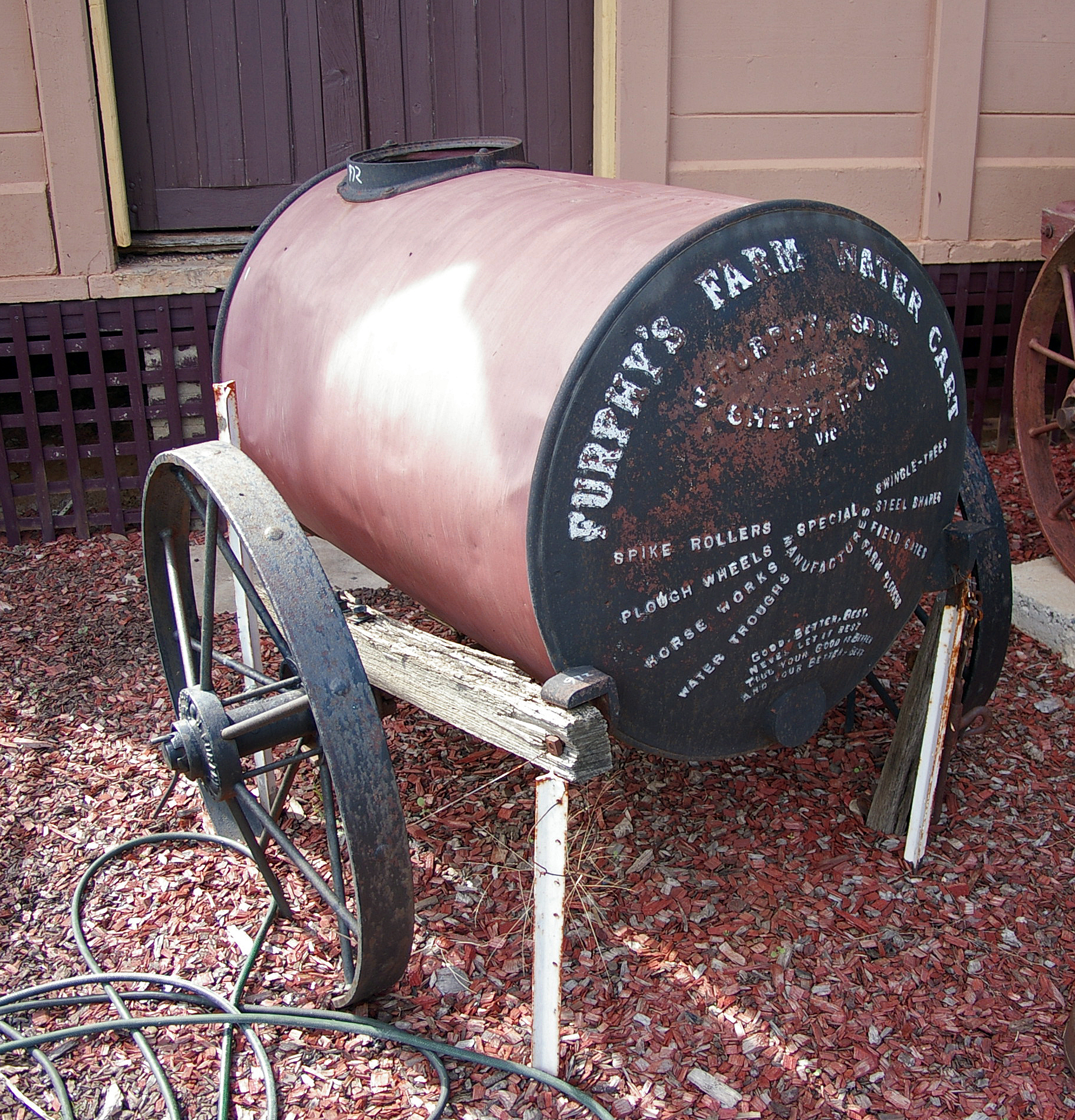 Furphy's Farm Water Cart at the Whitton Museum.